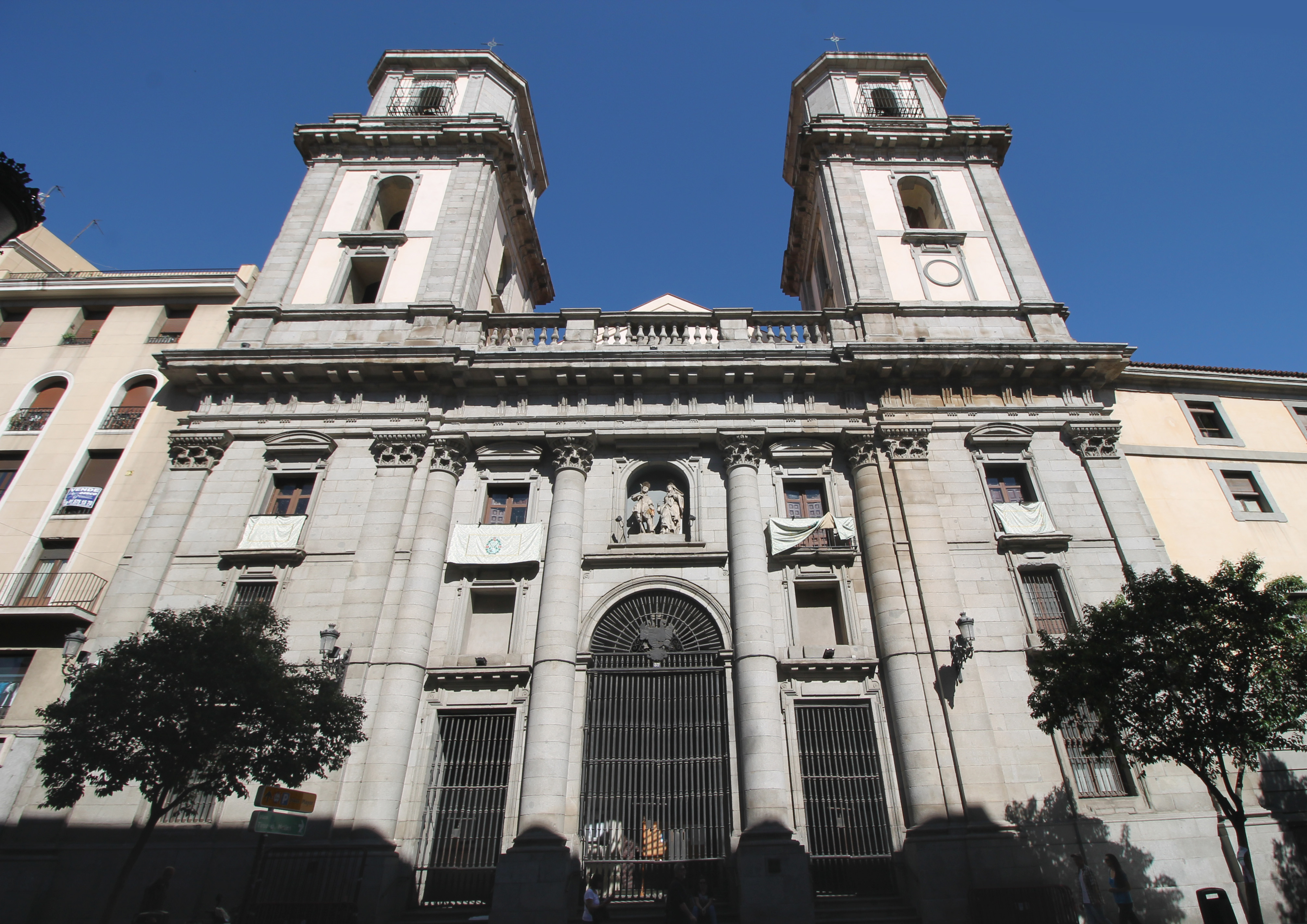 North-west façade of the Collegiate Church of St. Isidore in Madrid (Spain).